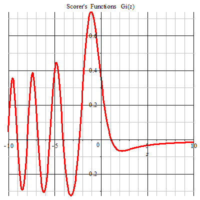 Scorers Gi function